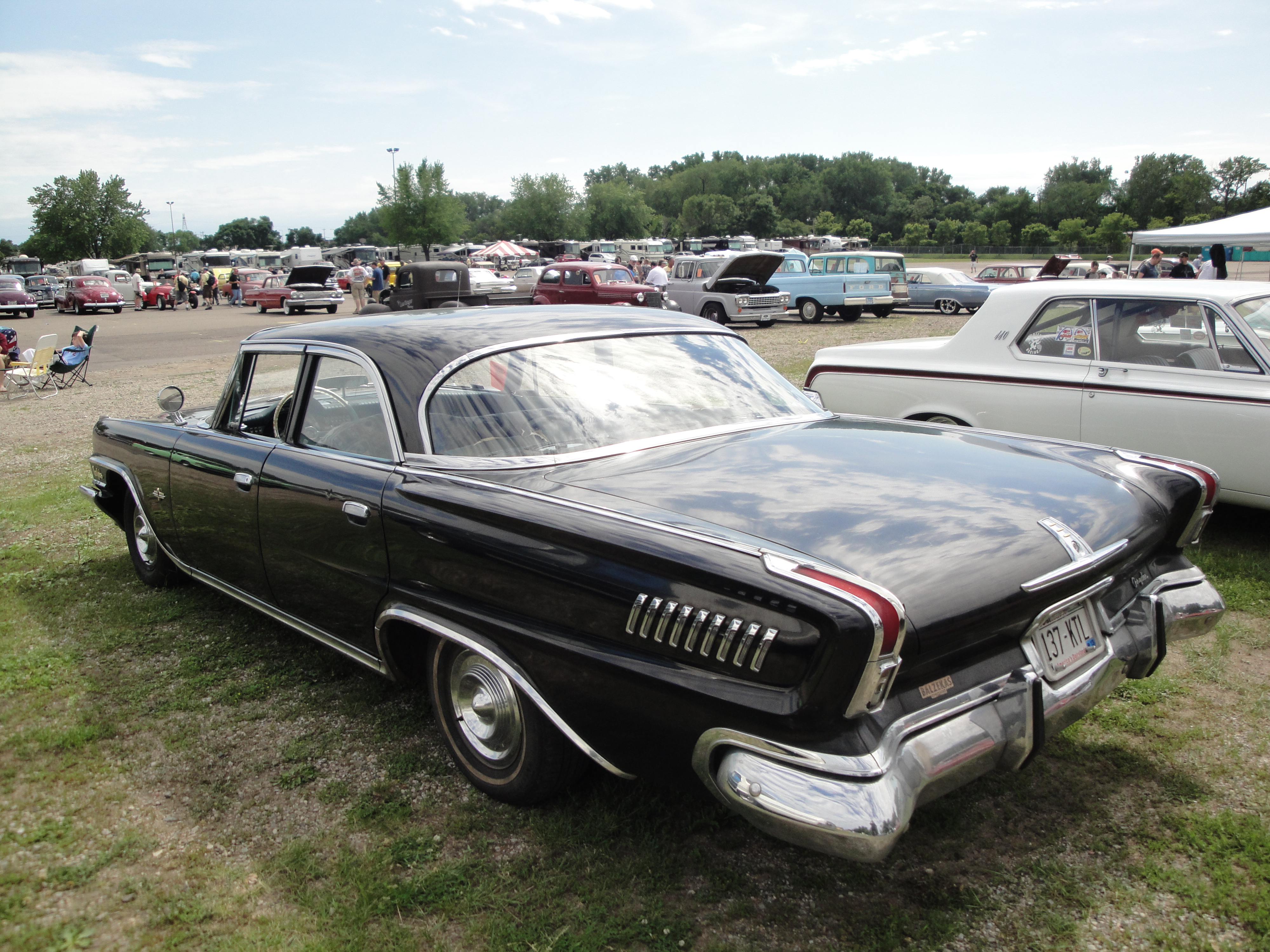 Minnesota Street Rod Association 39th Annual "Back to the Fifties" June 2012 Minnesota State Fairgrounds St. Paul MN